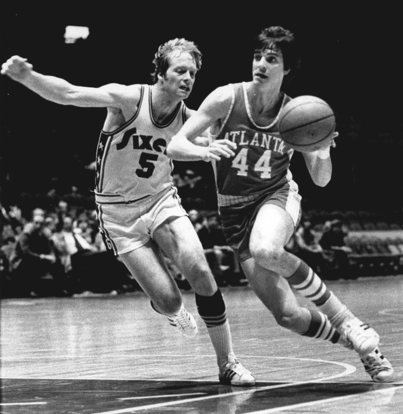 Professional basketball player Tom Van Arsdale (left) and Pete Maravich (right)